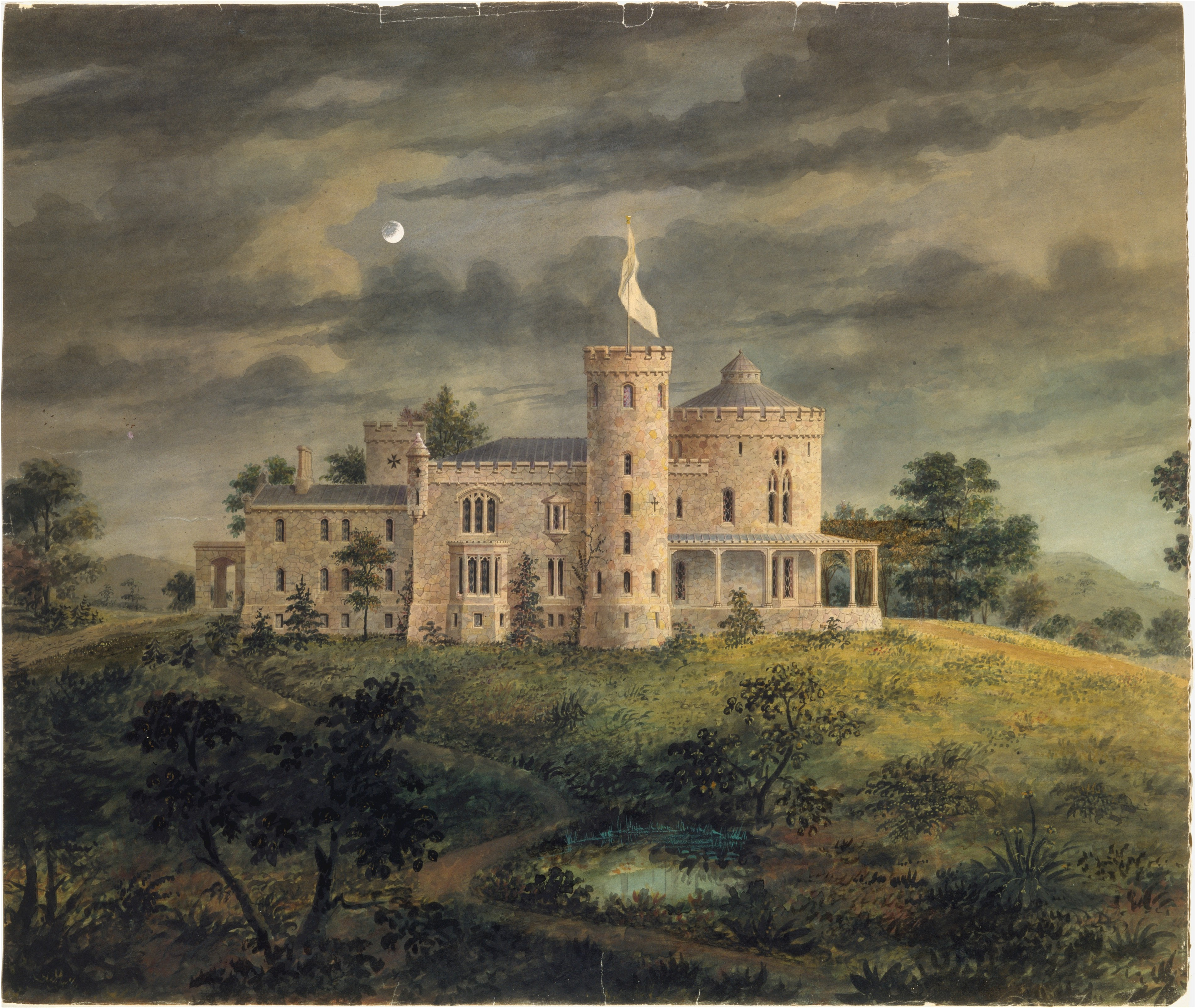 Drawing Ornament & Architecture; Drawings